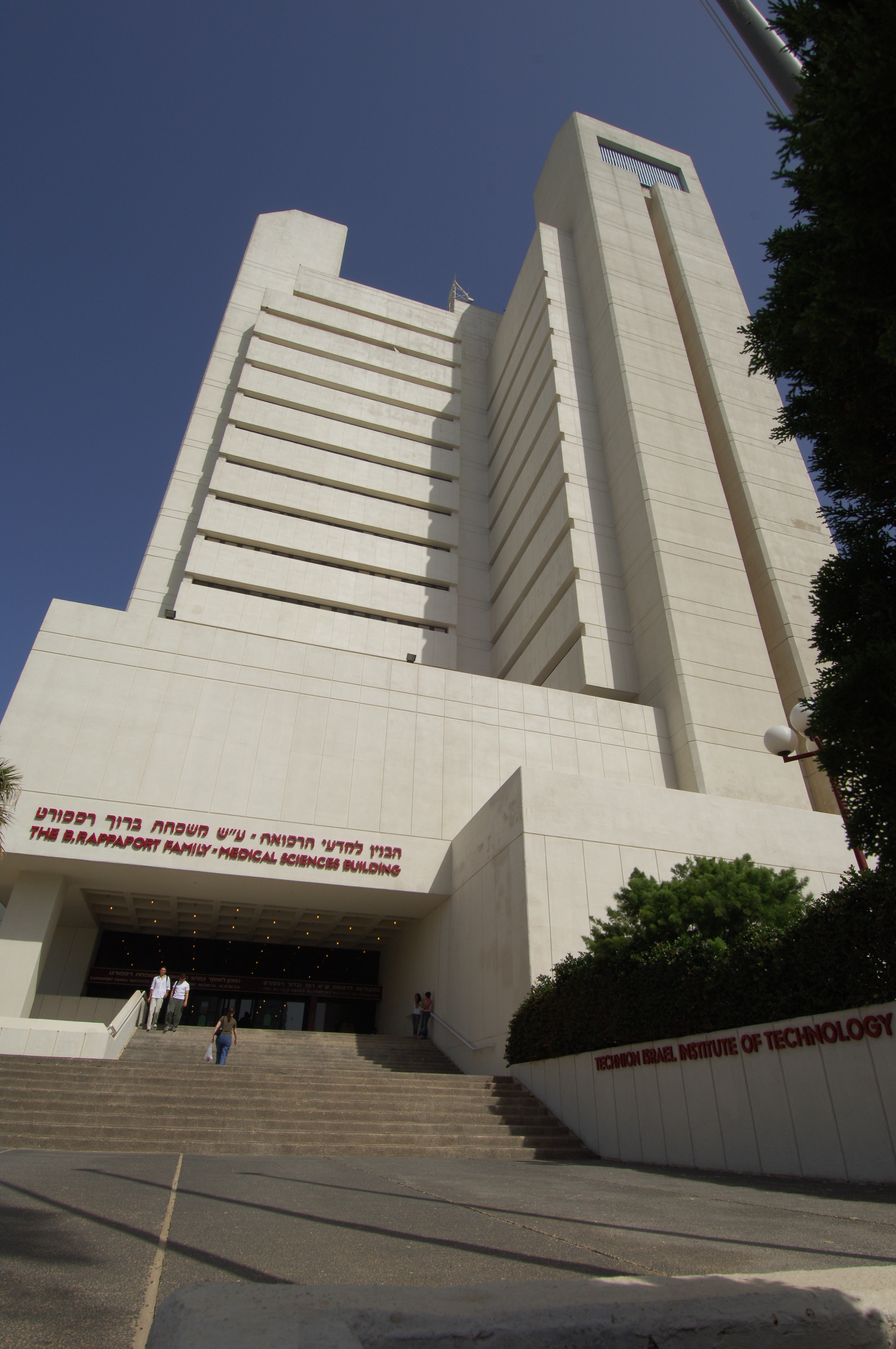 The Rappaport Family Medical Sciences Building